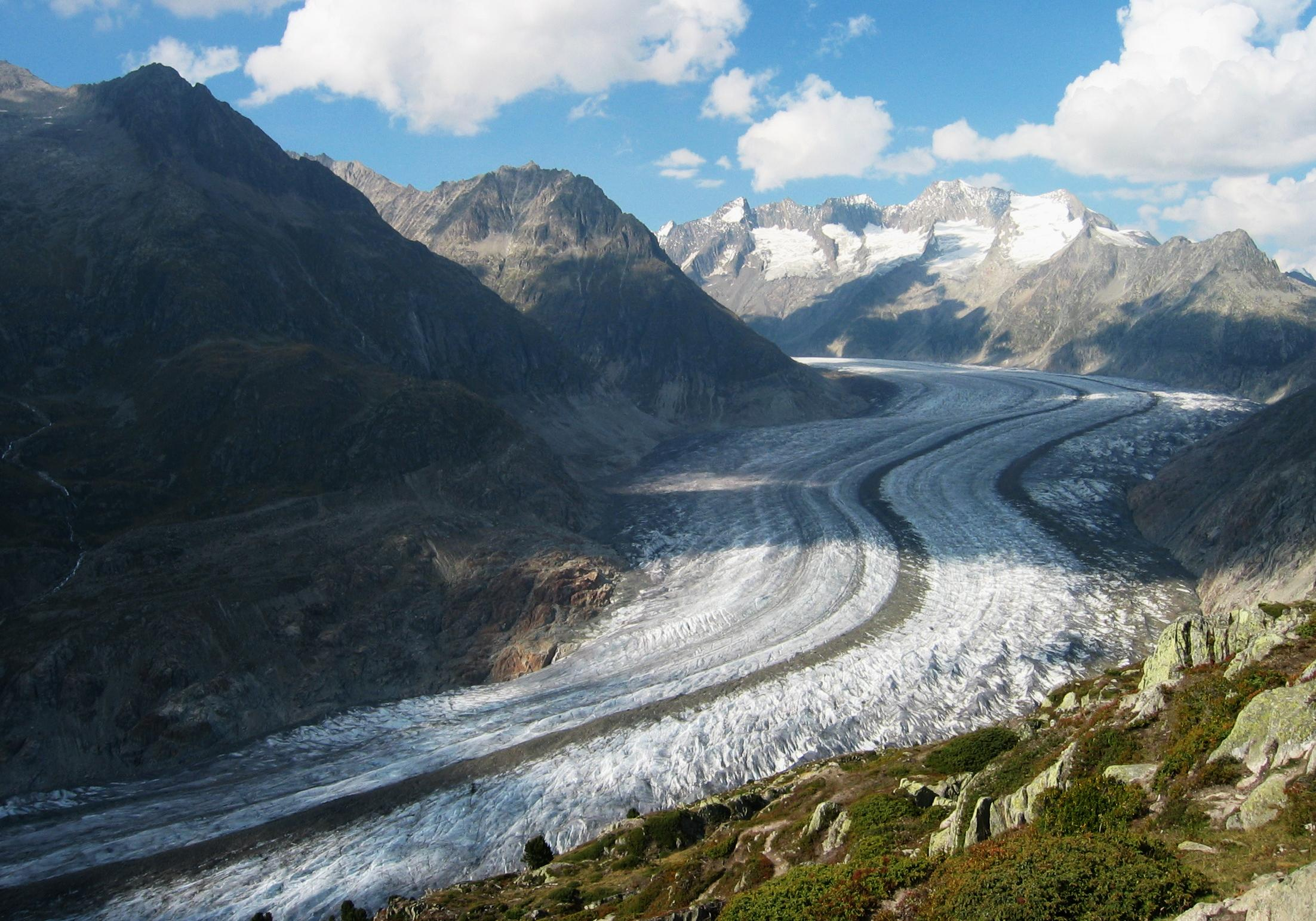 The Great Aletsch Glacier (Grosser Aletschgletscher), Valais. Looking toward Gross Wannenhorn.